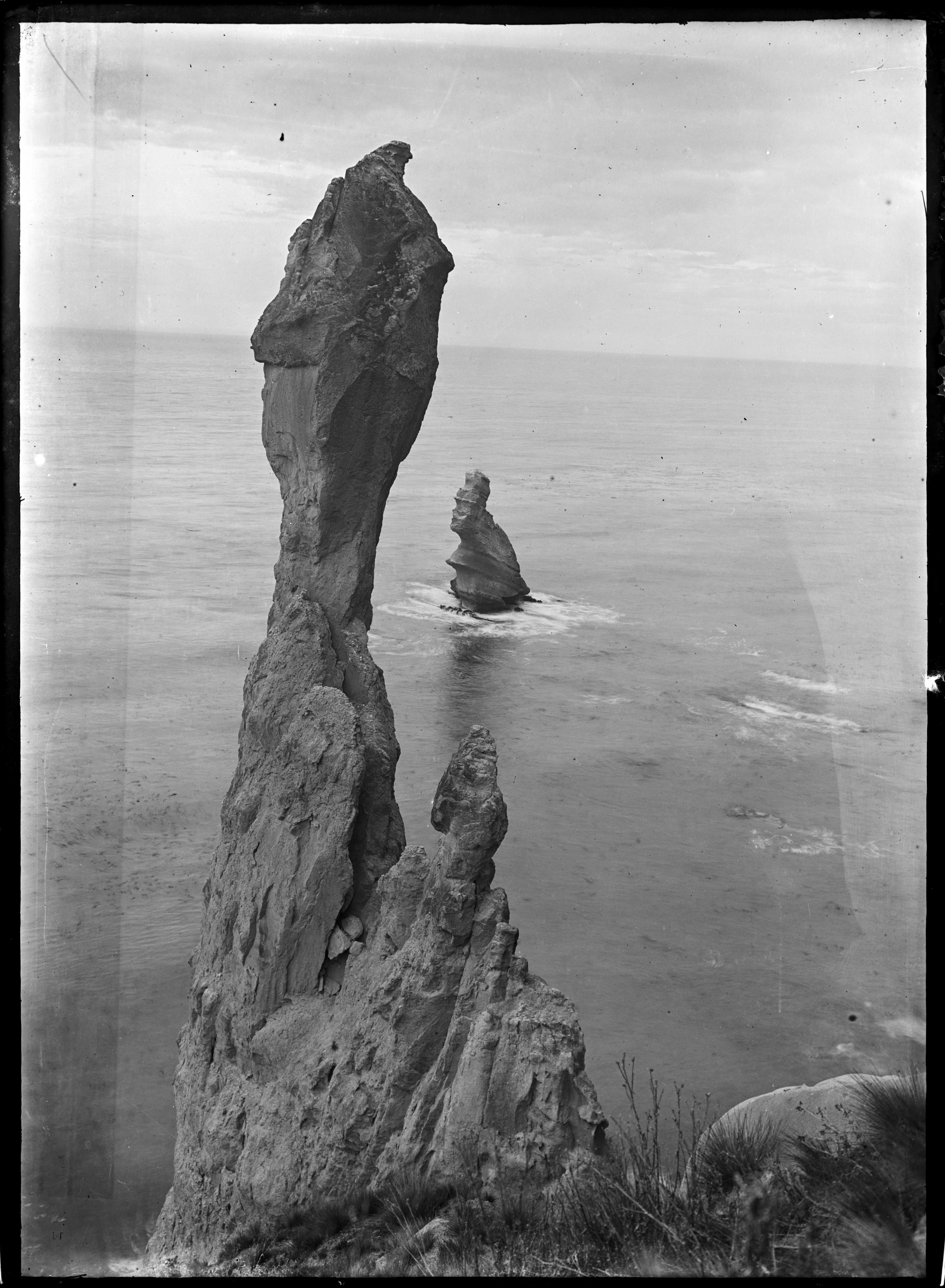 View of coastal rock formations near Puketeraki, Otago (identified by Godber as Brind's Rock), taken ca 1926 by Albert Percy Godber.